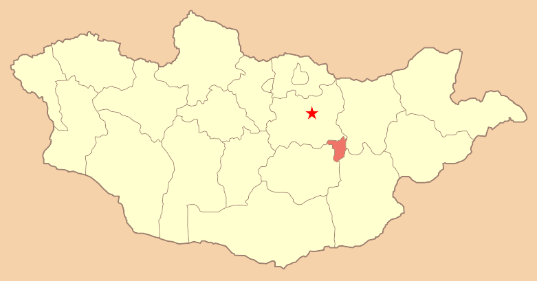 Map of Mongolia with Gobisumber Aimag highlighted.